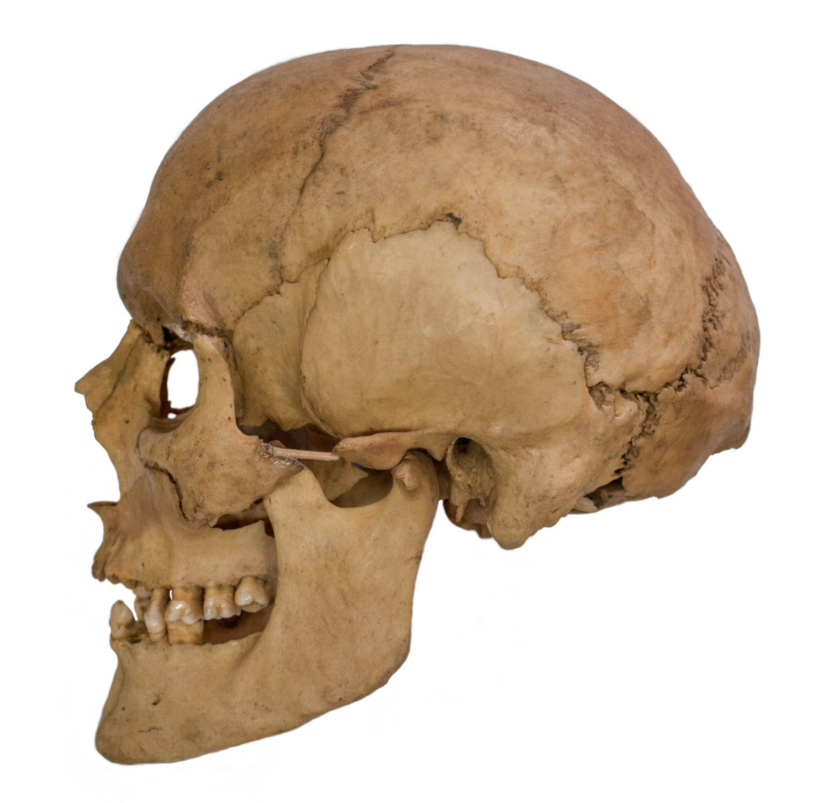 Skull of Henry VII of Holy Roman Empire. Result of the recognition carried out in June 2014.